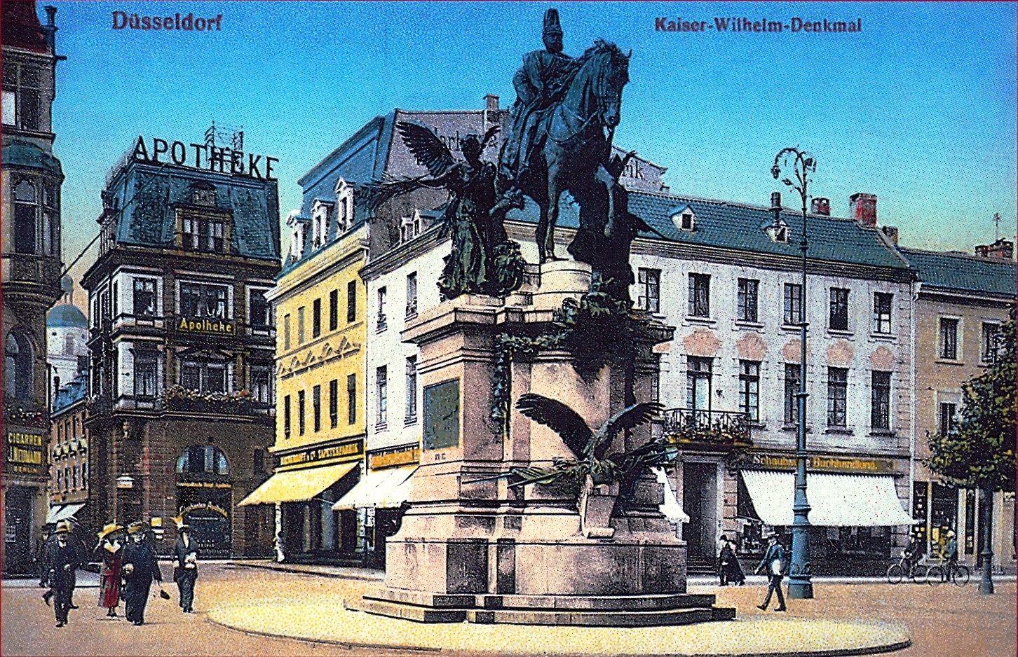 Monument for emperor Wilhelm I. at Düsseldorf, Bolkerstraße / Alleestraße (today Heinrich-Heine-Allee), 1896 by sculptor Karl Janssen (monument later moved to Martin-Luther-Platz)